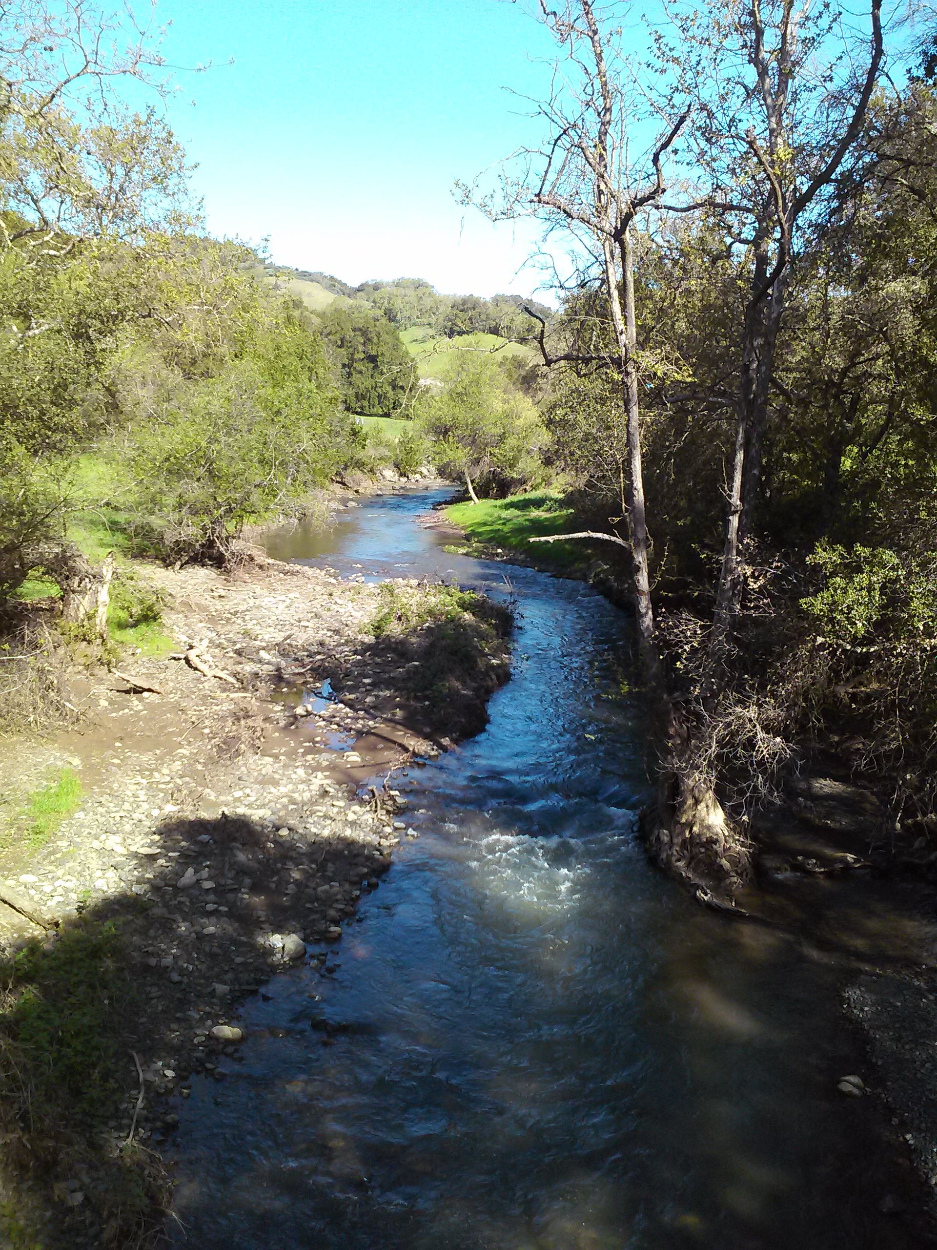 View of Llagas Creek from bridge on Oak Glen Ave in Morgan Hill, California. Photo taken March 28, 2017.